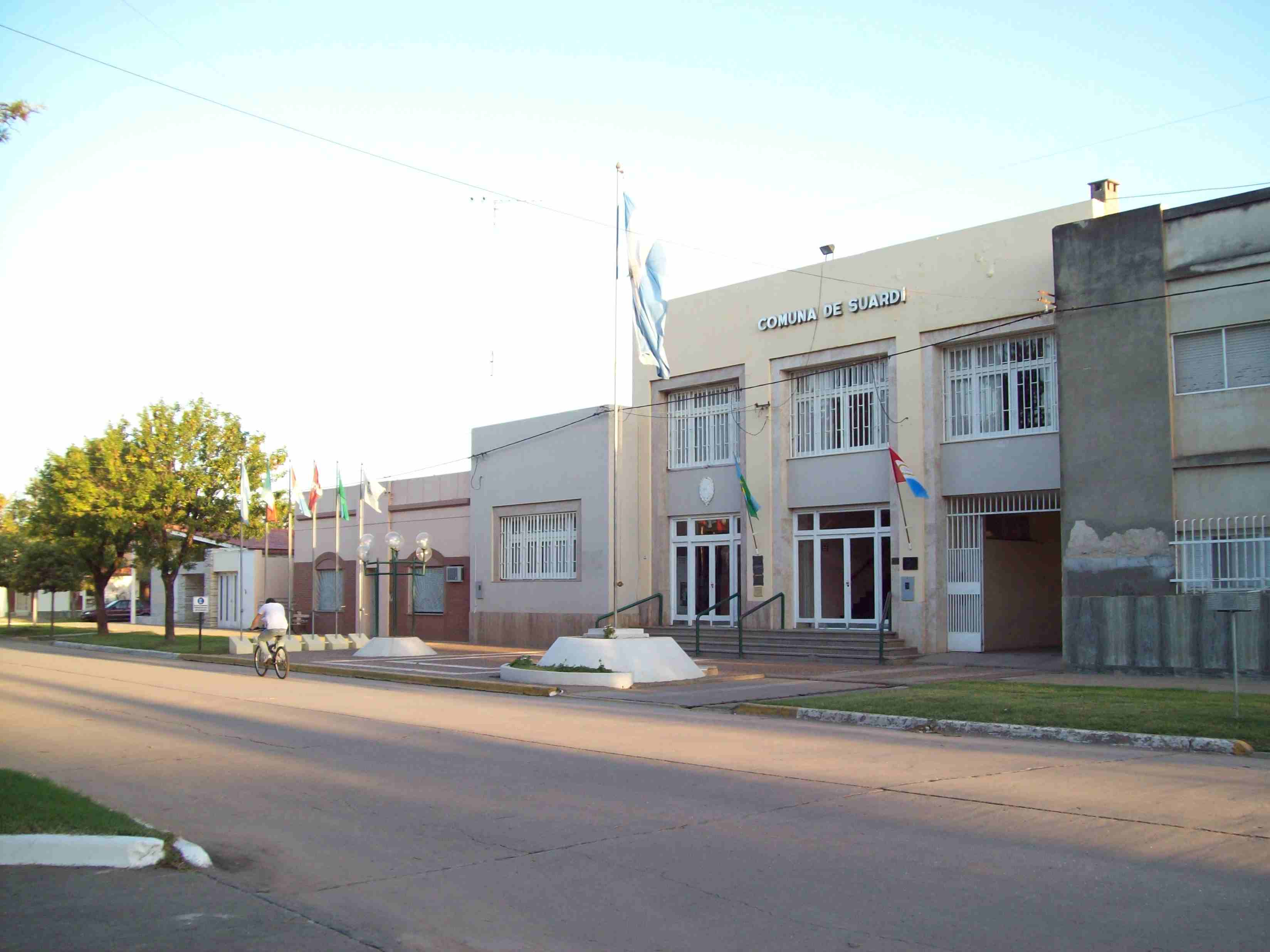 Building of Comuna de Suardi